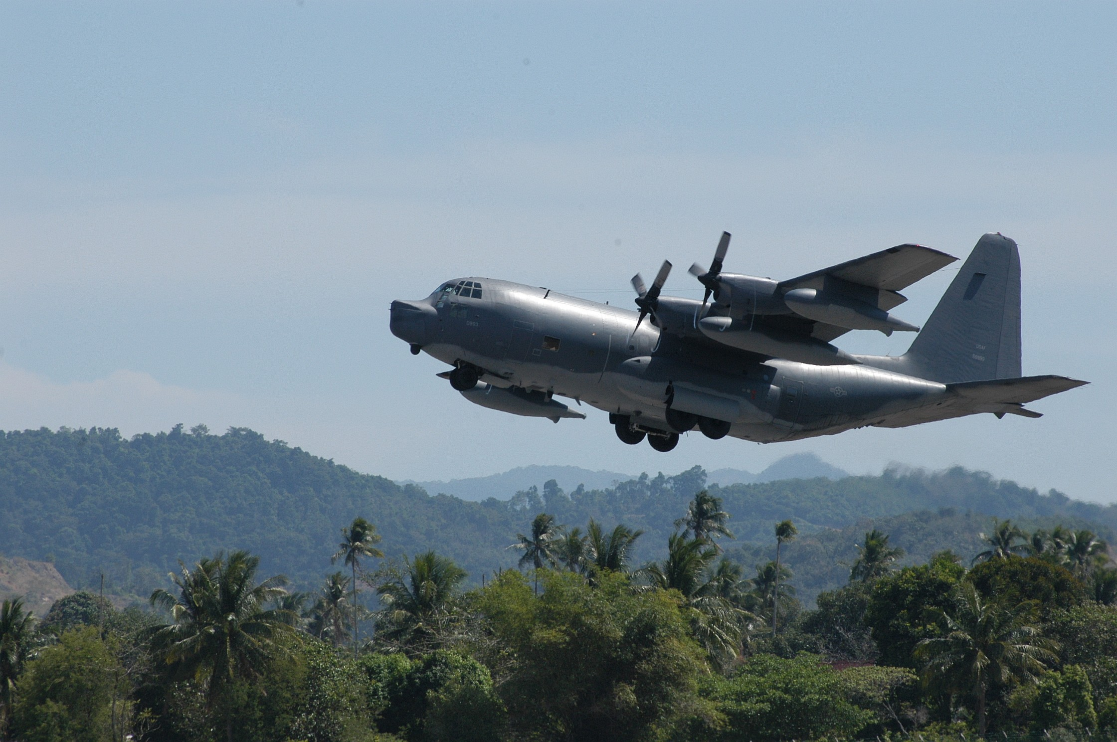 AFSOC unit wraps up Asian aid mission. An MC-130P Combat Shadow from Kadena Air Base, Japan, takes off from LANGKAWI, Malaysia, Jan 14. Crews from Kadena's 17th Special Operations Squadron fly into Indonesia daily, shuttling humanitarian relief supplies into Banda Aceh.